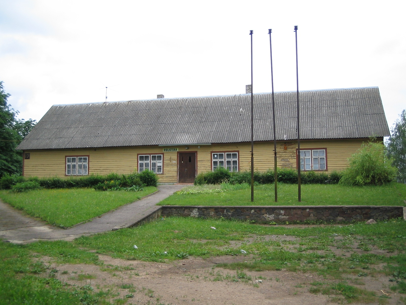 Former school and library of Stasiūnai